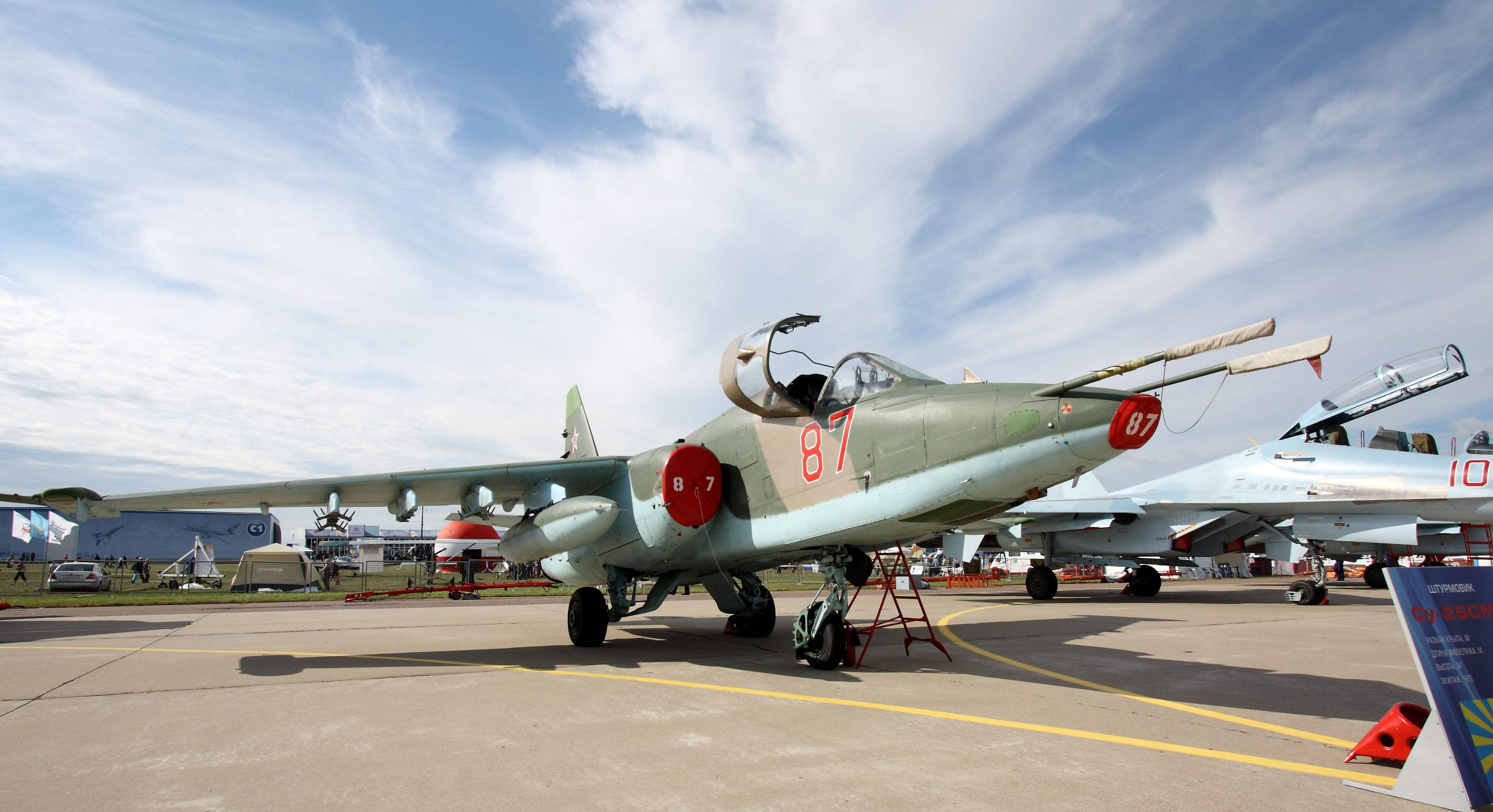 Low-flying attack aircraft Sukhoi Su-25SM Frogfoot (The international aerospace salon MAKS-2011)